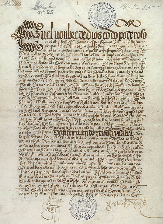 Original page from the Tratado de Tordesilhas.